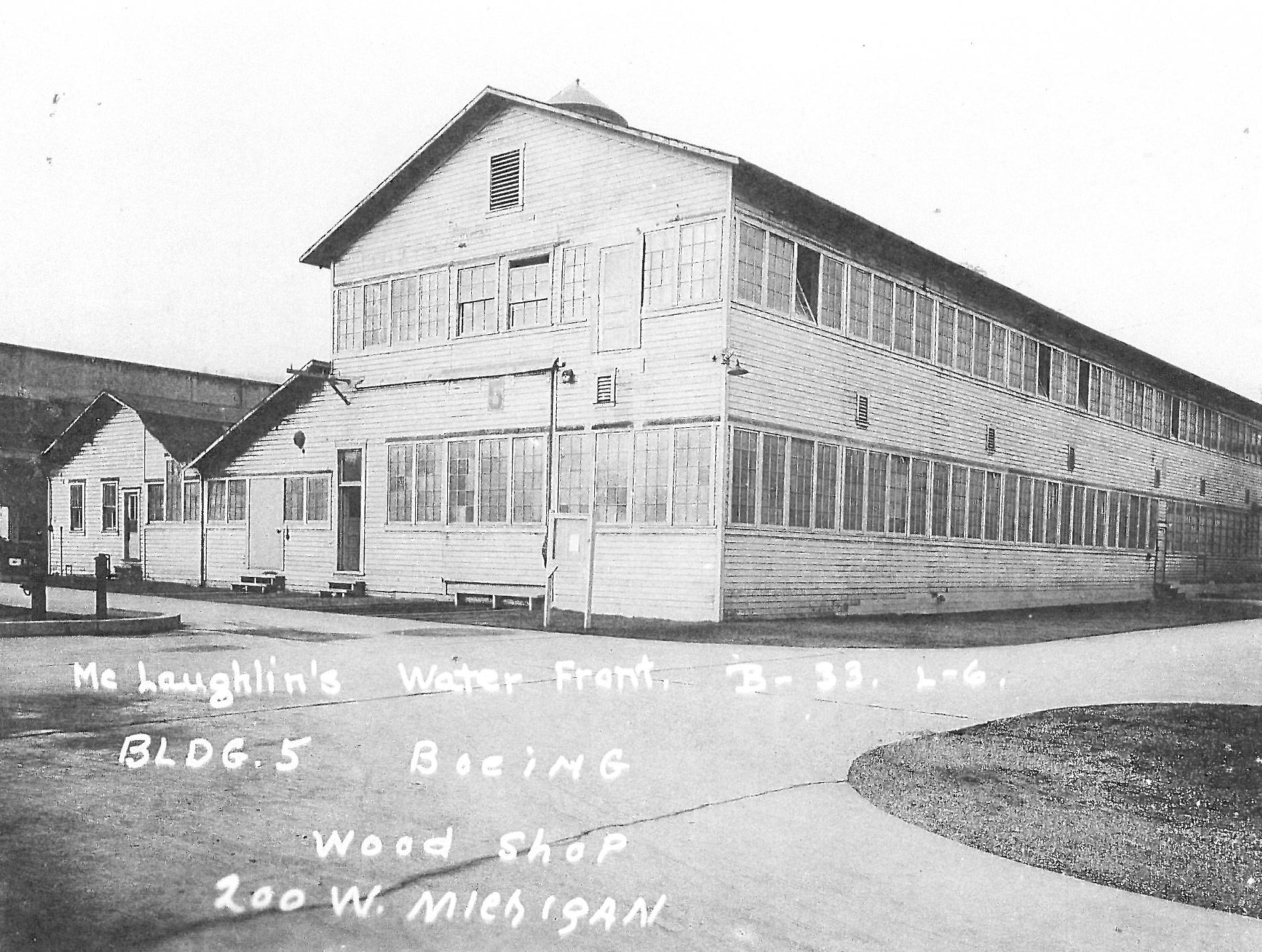 xerox of king county tax record for boeing plant 1